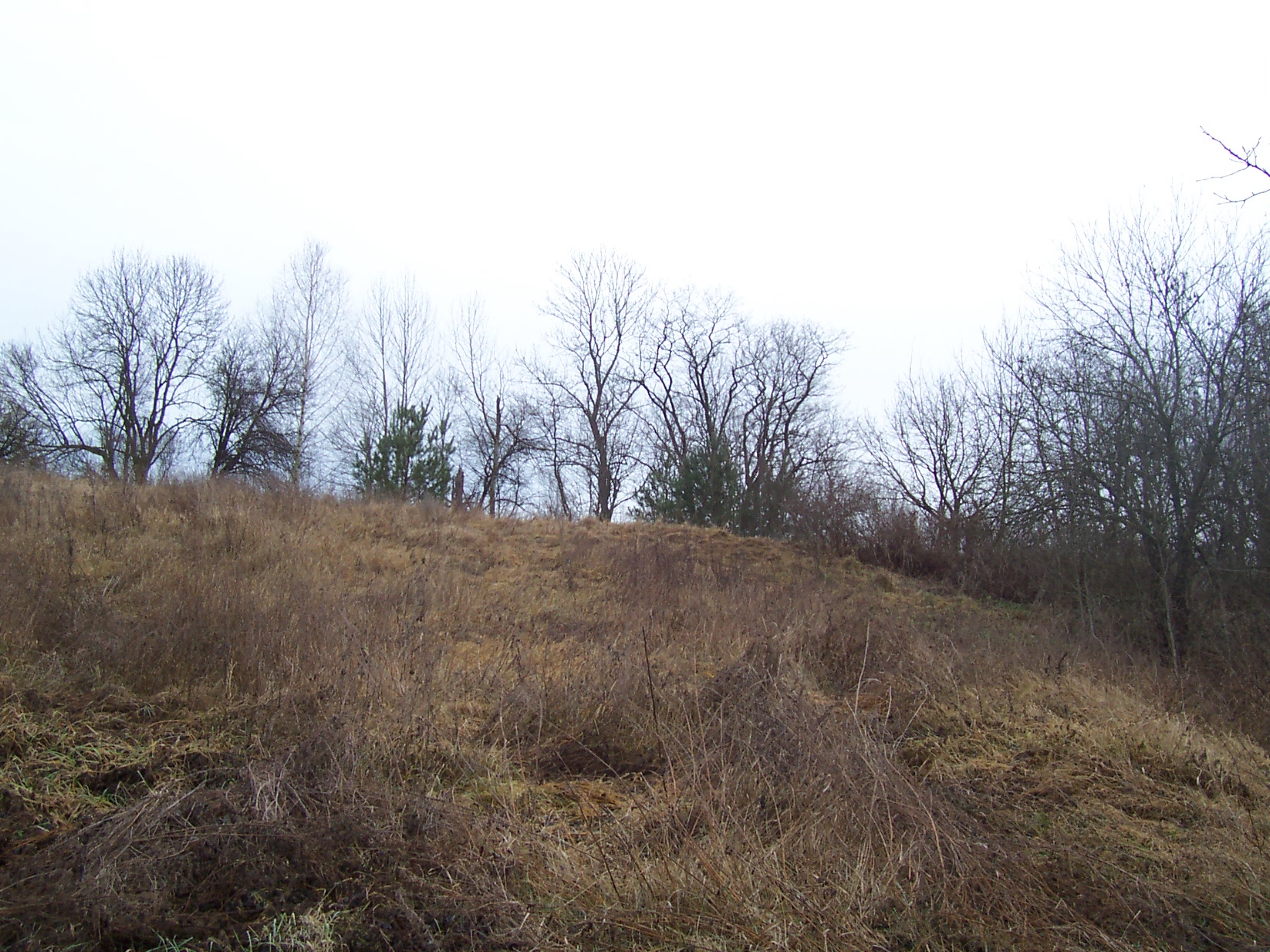 Place where K. Krahelska's family house was situated in Mazurki, Belarus